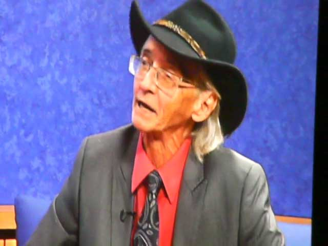 photo taken to Juan T. Vazquez Martin by Mercuba in NewsBay9 TV Station in Tampa, Florida, Estados Unidos